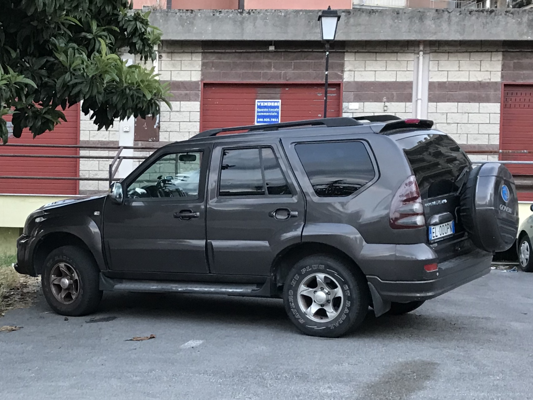 Gonow GX6 in Avellino